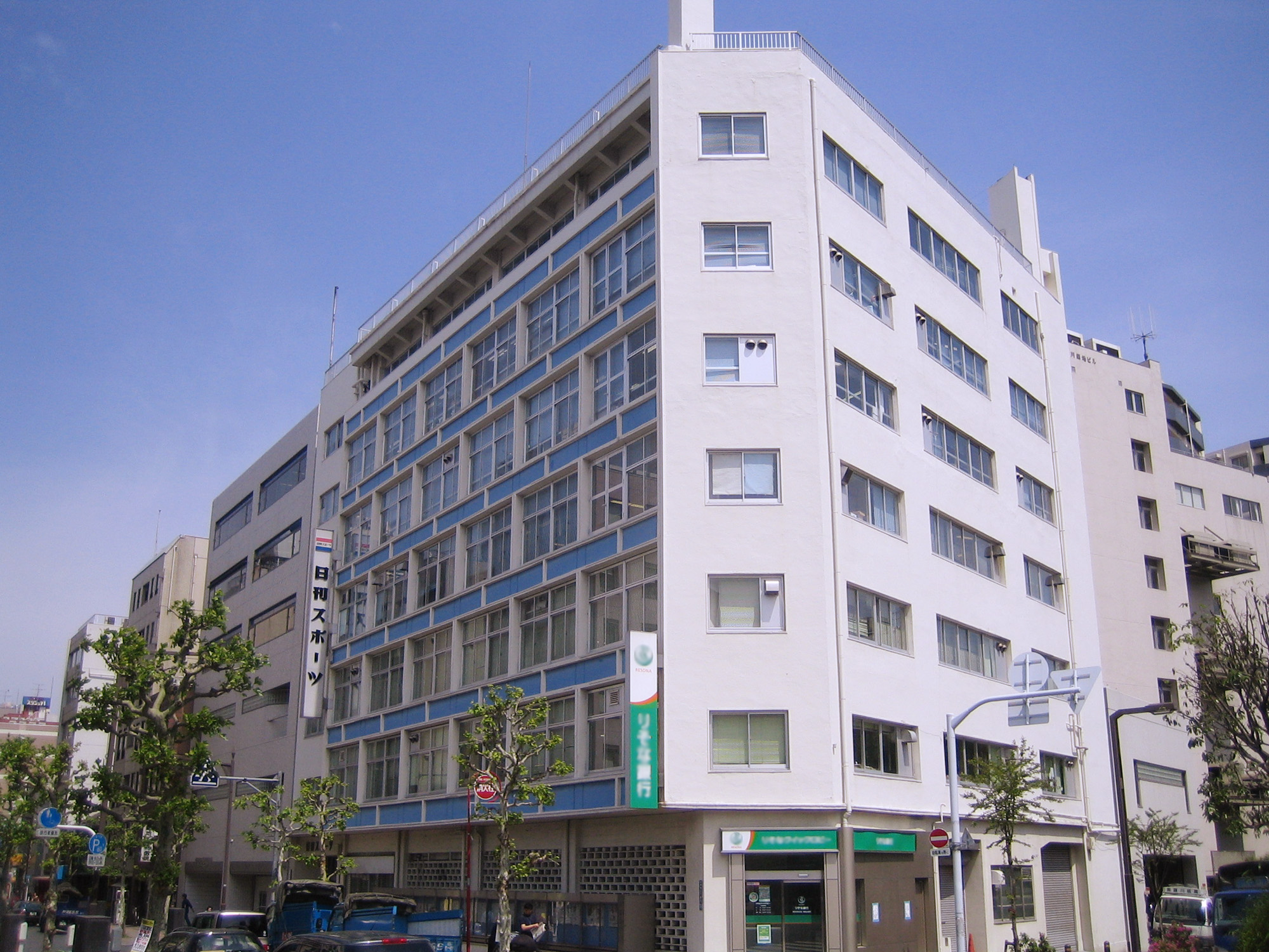 Nikkan Sports (日刊スポーツ), in Chuo, Tokyo, Japan